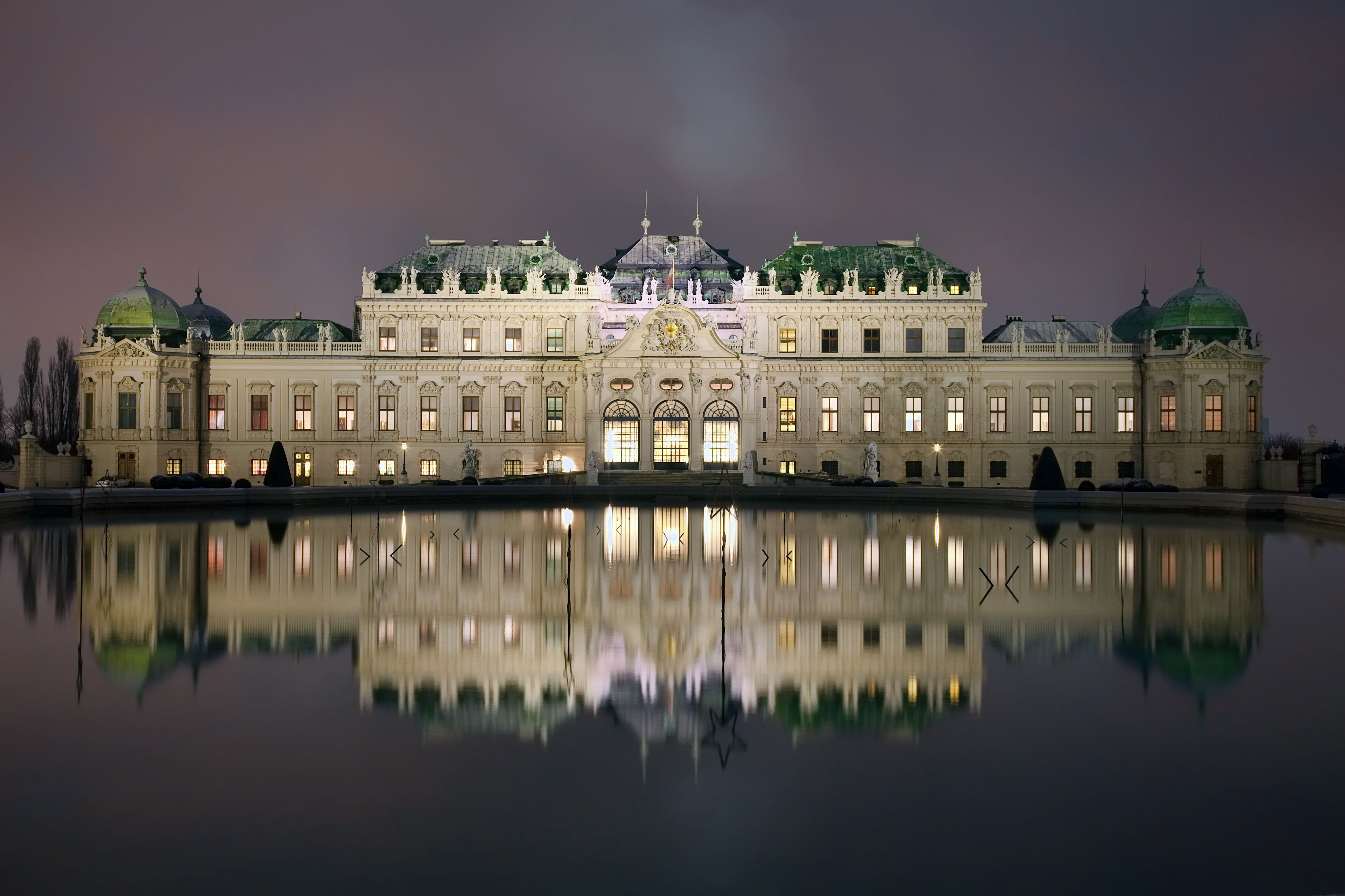 Upper Belvedere, Vienna